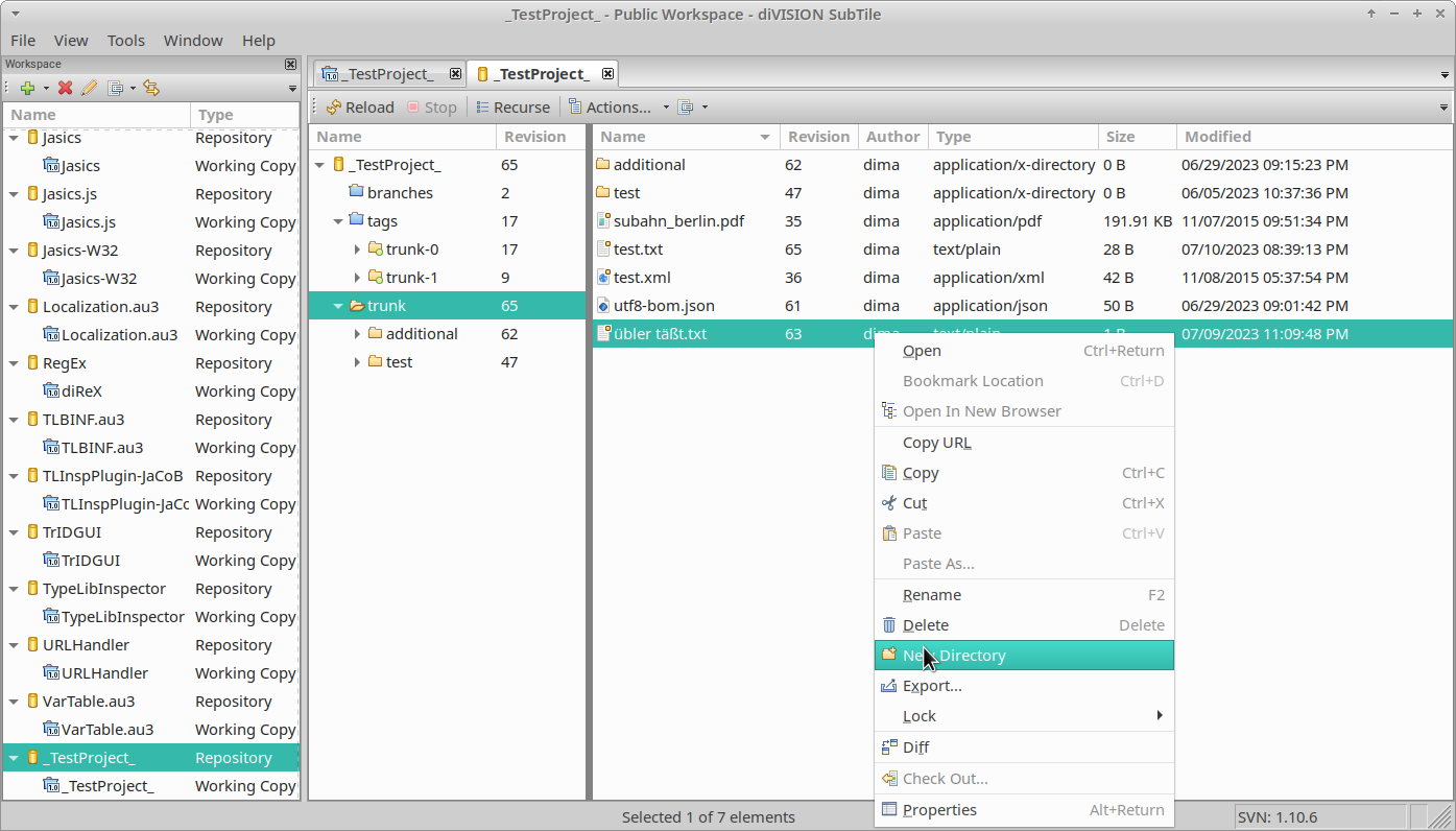 Screenshot: browsing SubTile workspace